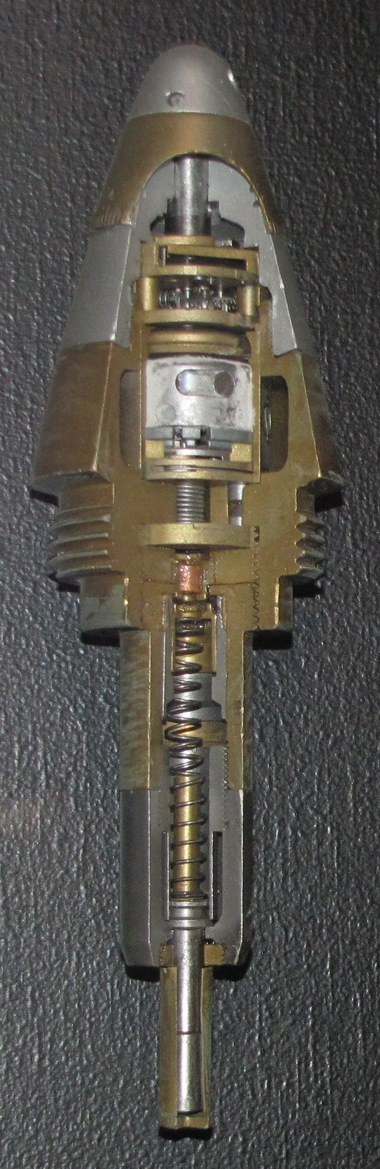 Sectioned artillery fuze photographed in Hämeenlinna artillery museum. Probably Swiss Tavaro mechanical time fuze, used in Finland in heavy anti-aircraft guns. Some were also assembled in Finland by Sytytin Oy.